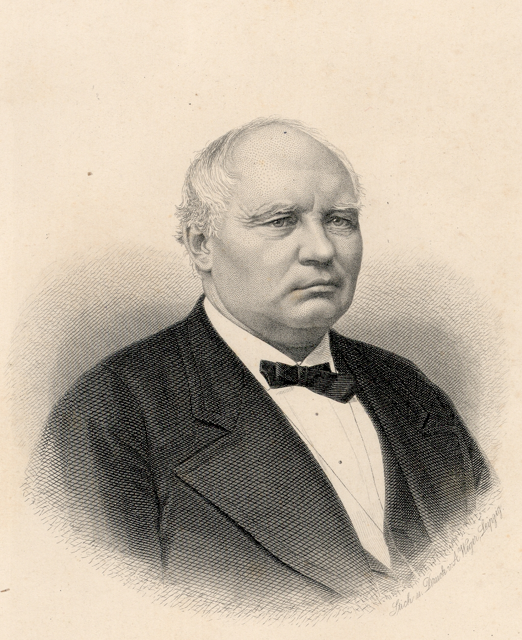 Johann Voldemar Jannsen